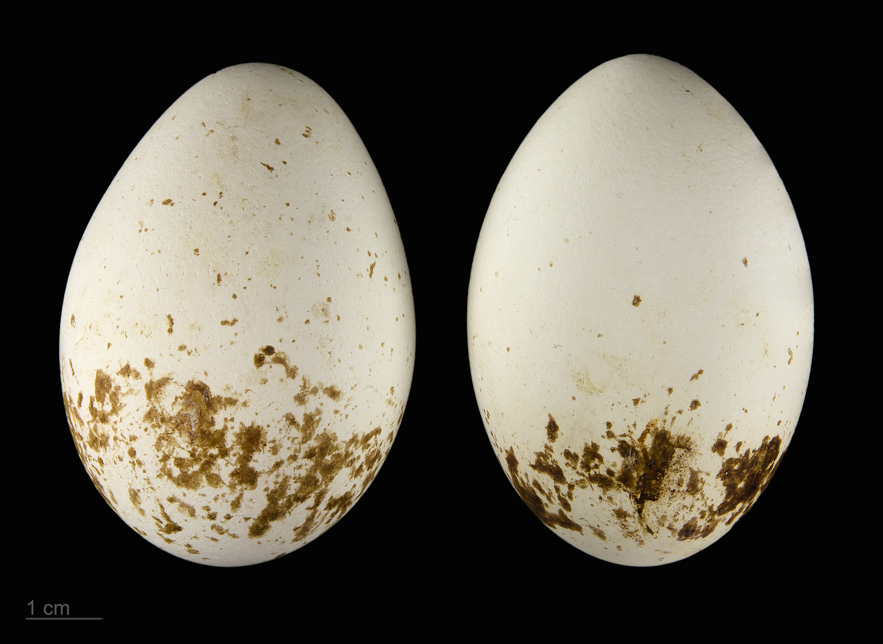 Eggs of African spoonbill Two specimens of the same spawn ; collection of Jacques Perrin de Brichambaut.